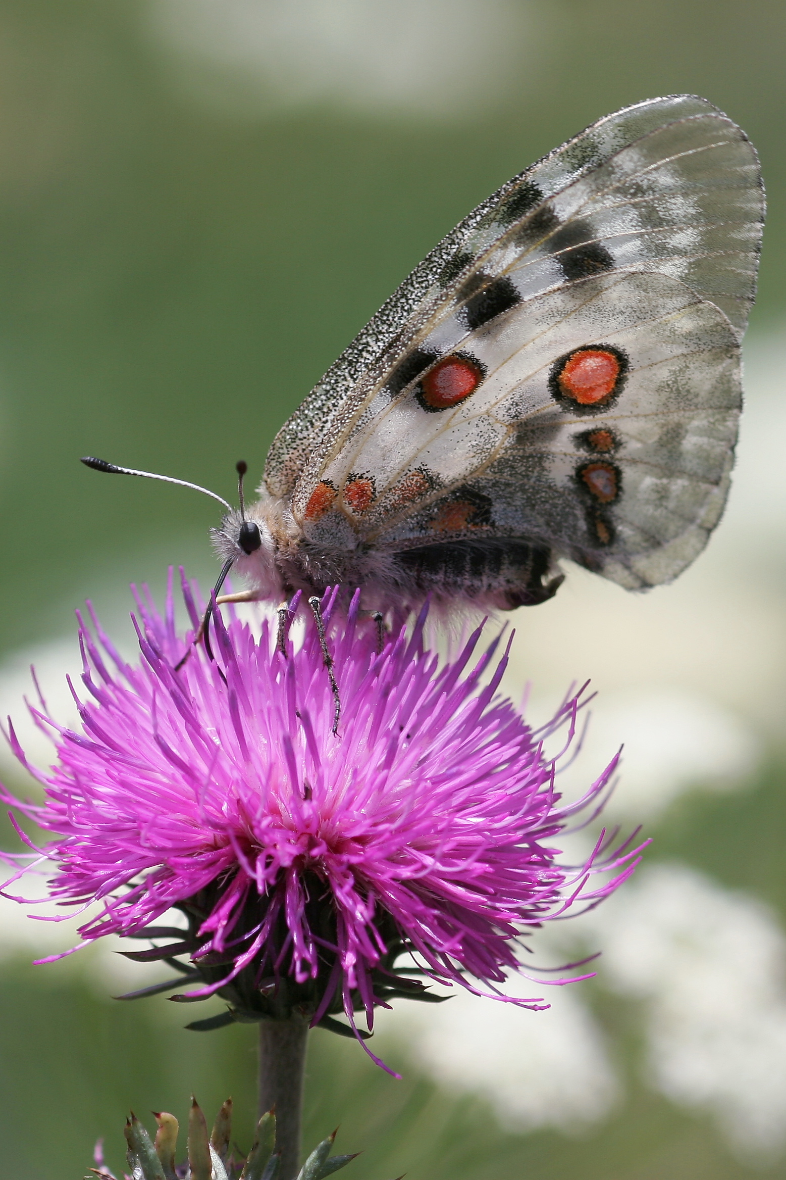 Female Apollo with Sphragis Location: Südtirol, Italy